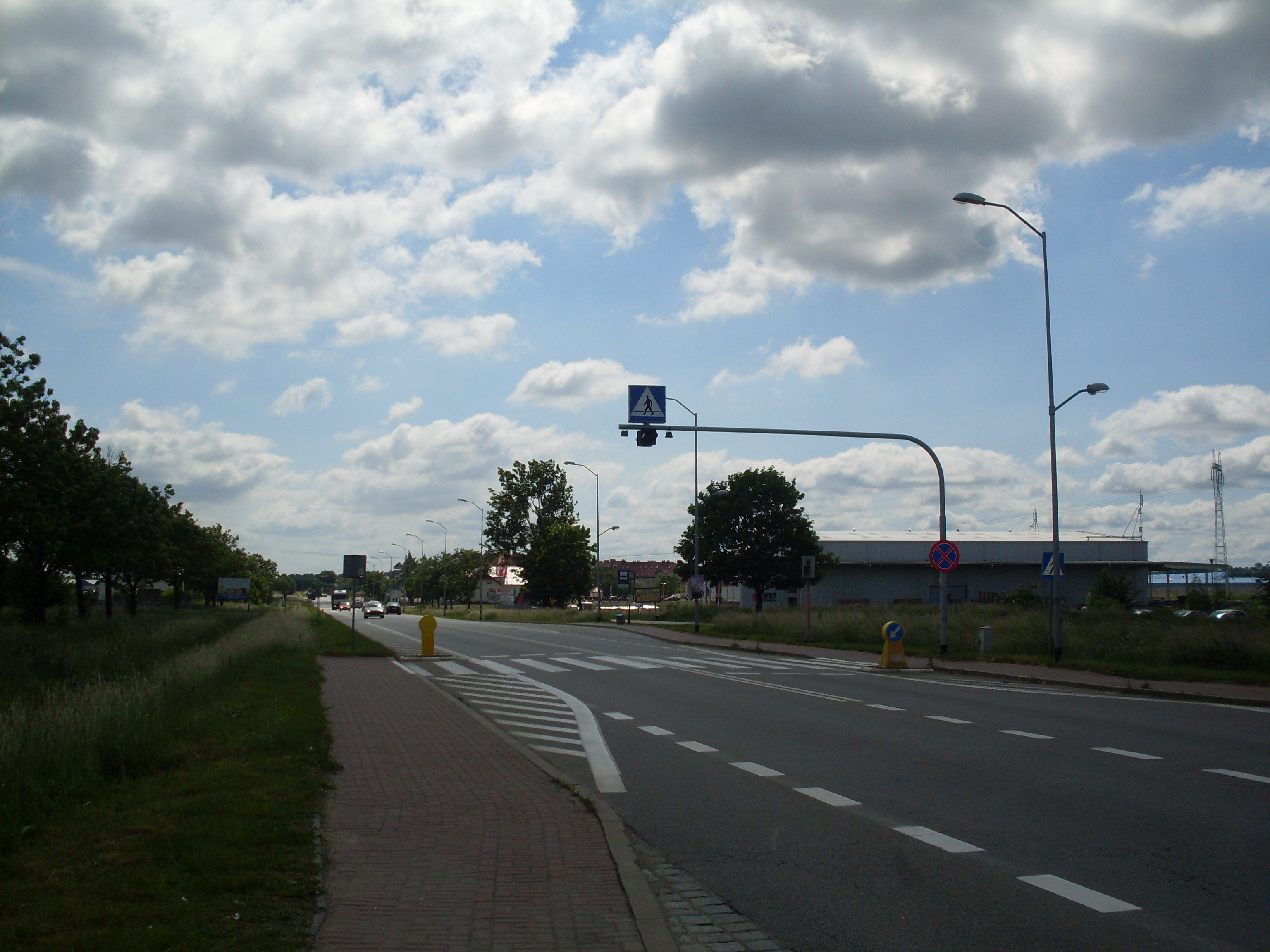 Warzymice, Police County